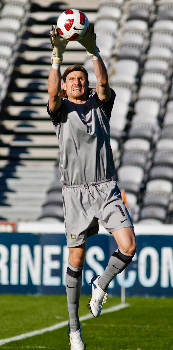 Andrew Redmayne playing for the Australian Olympic Football team against Yemen in 2011 at Gosford, New South Wales.